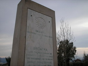 Macedonian settlers column in Atalanti